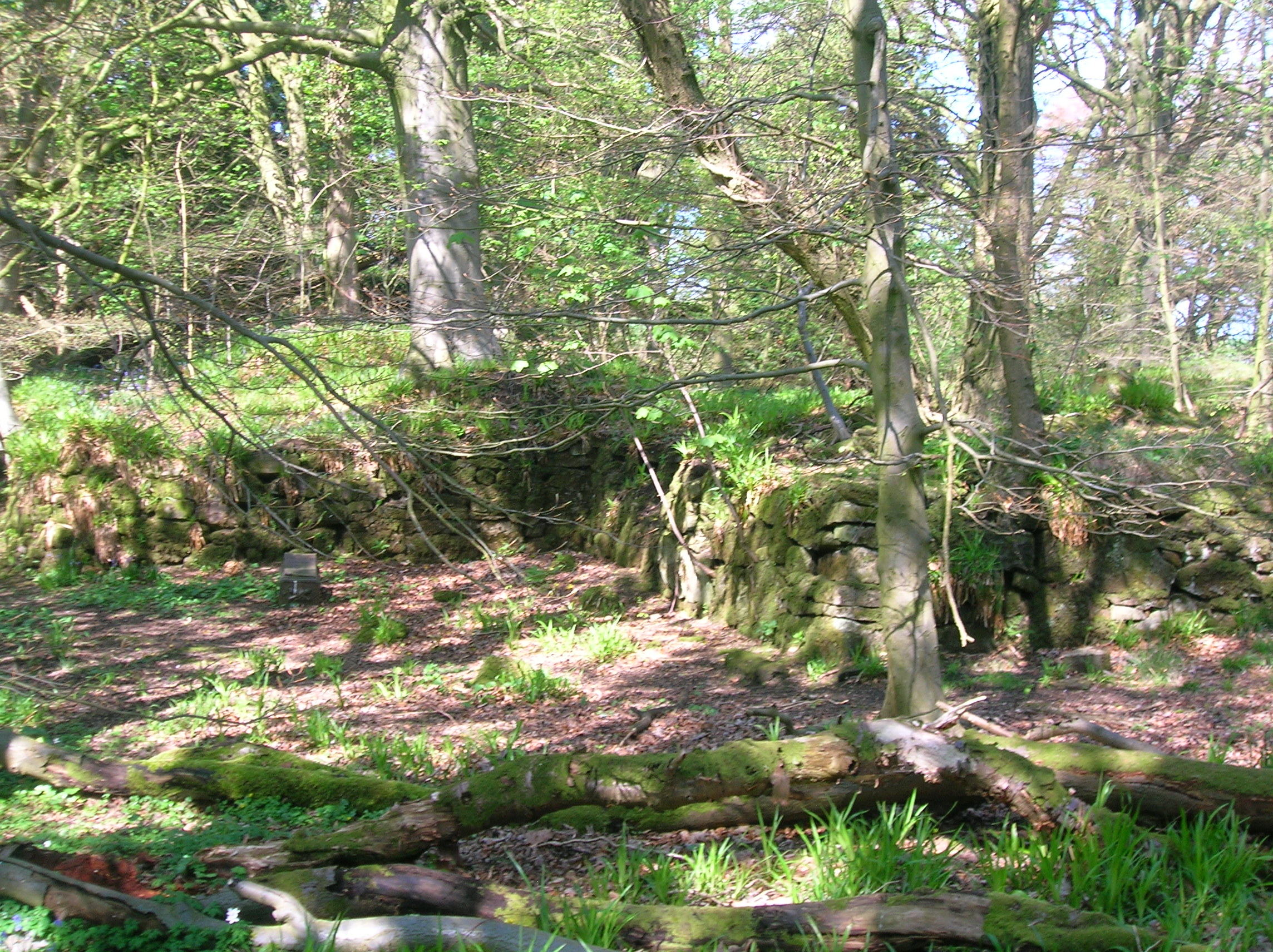 A view of the outside wall of the old Montgreenan castle on the Lugton Water, North Ayrshire, Scotland. 2007. Rosser 12:41, 27 April 2007 (UTC)